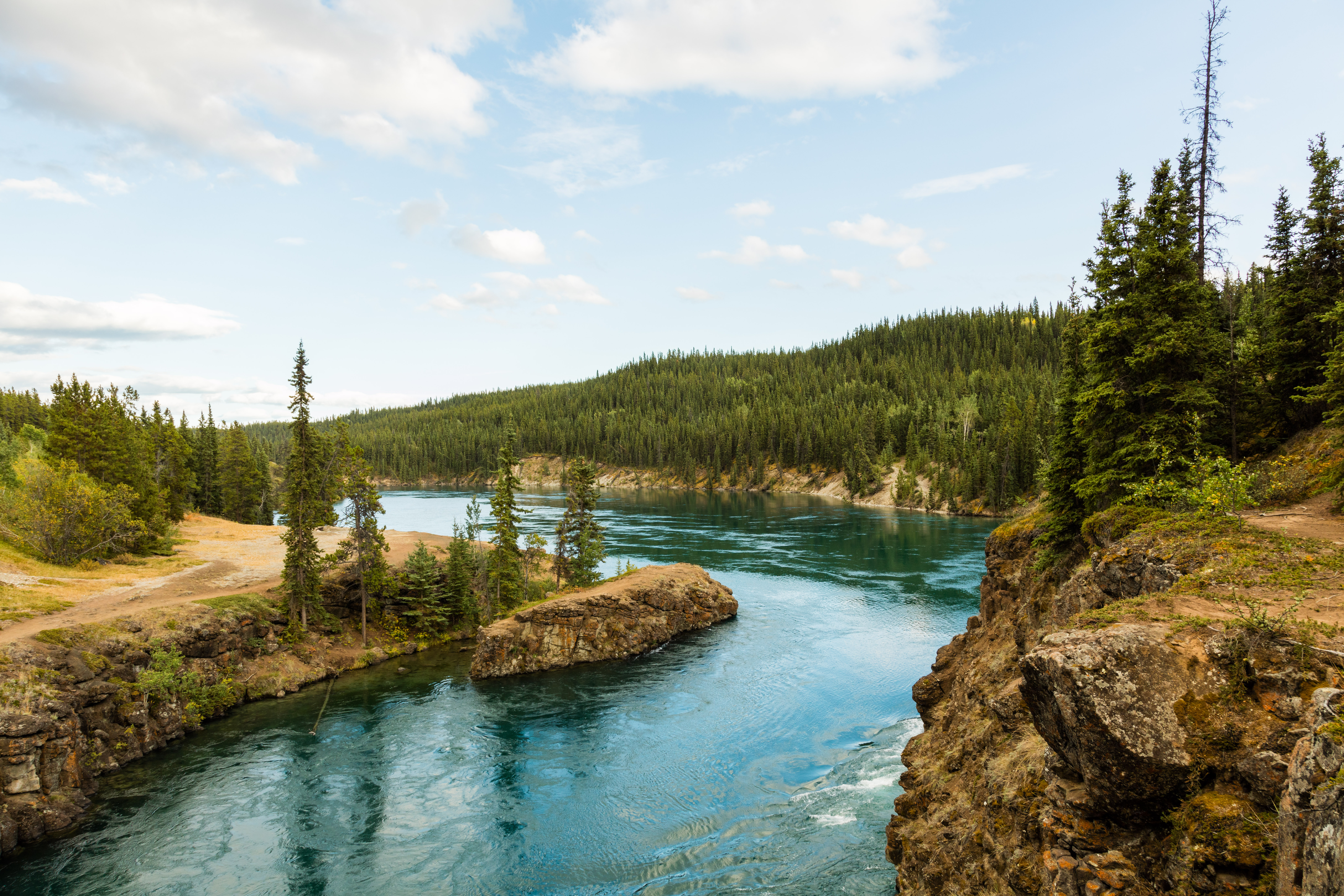 Miles Canyon, Yukon, Canada